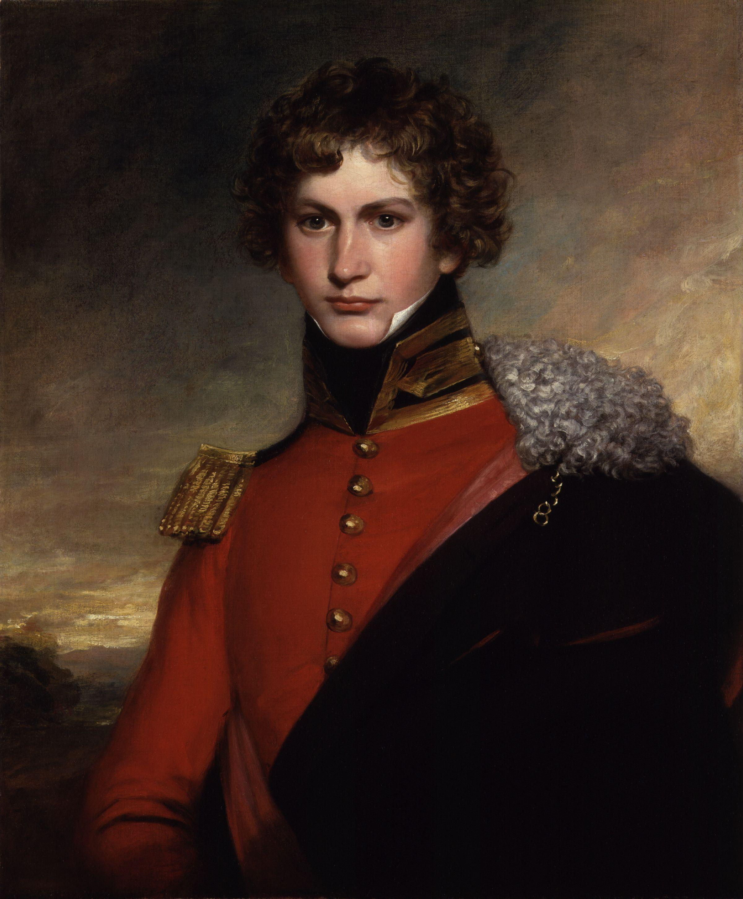 Sir William Cornwallis Harris, by Ramsay Richard Reinagle (died 1862). All images in this batch have been confirmed as author died before 1939 according to the official death date listed by the NPG.